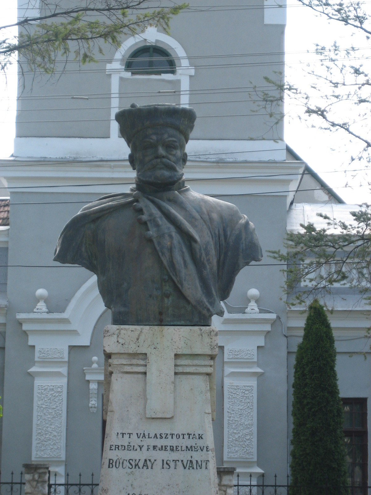 The statue of Bocskai István in Miercurea Nirajului